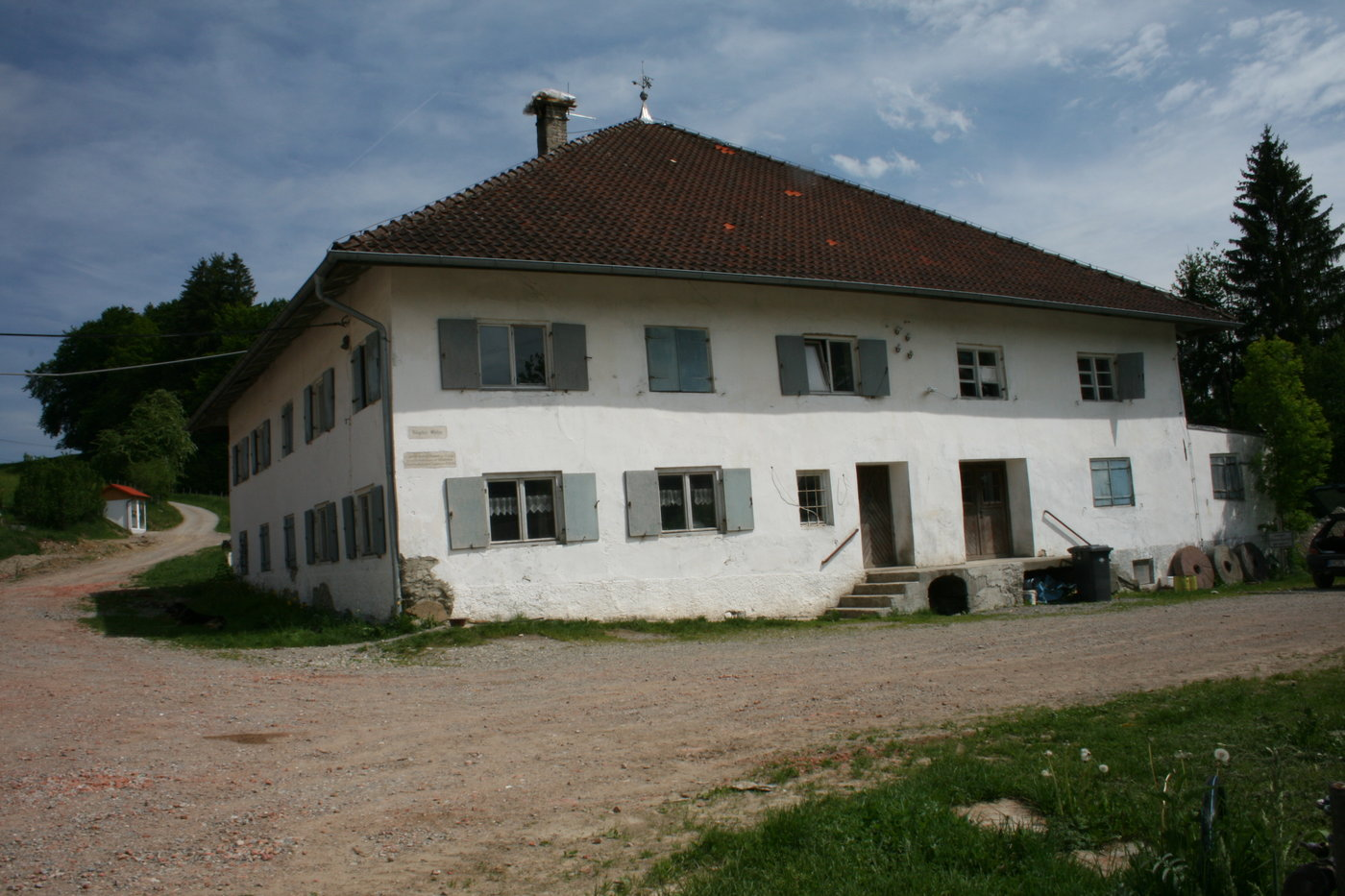 View from west on the Vögelesmühle, a former watermill in Bavaria, Germany